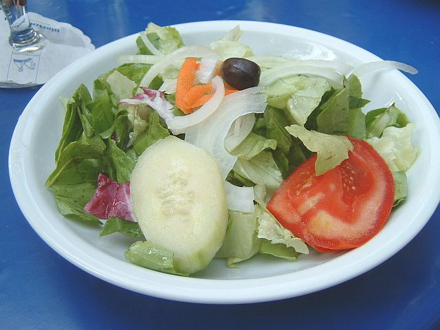 A bowl of salad consisting of lettuce, onion, tomato, cucumber, carrot, and a black olive.